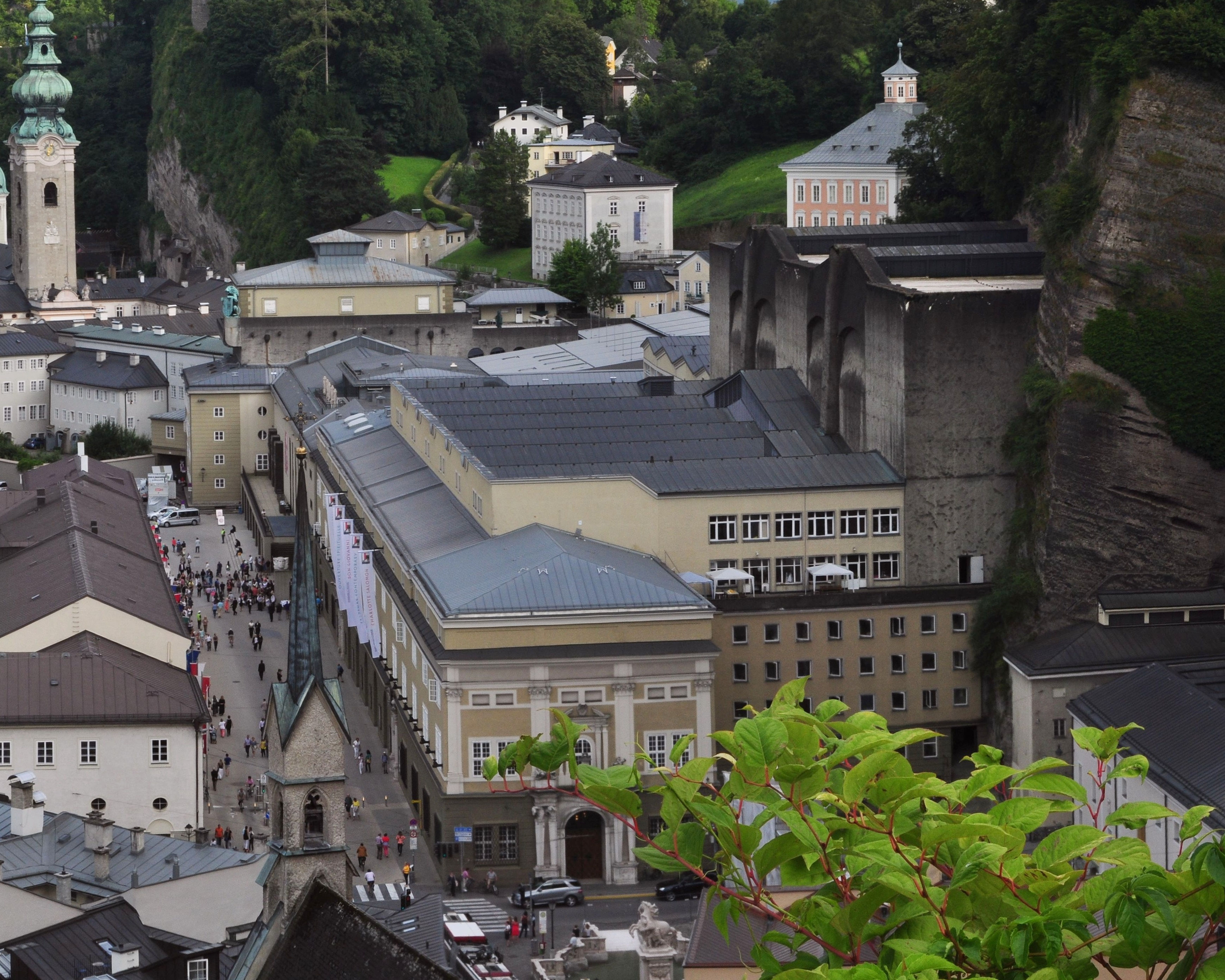 View of the Festival Theatres from the Mönchsberg. The huge stage tower of the Festspielhaus is visible, carved out on the mountin